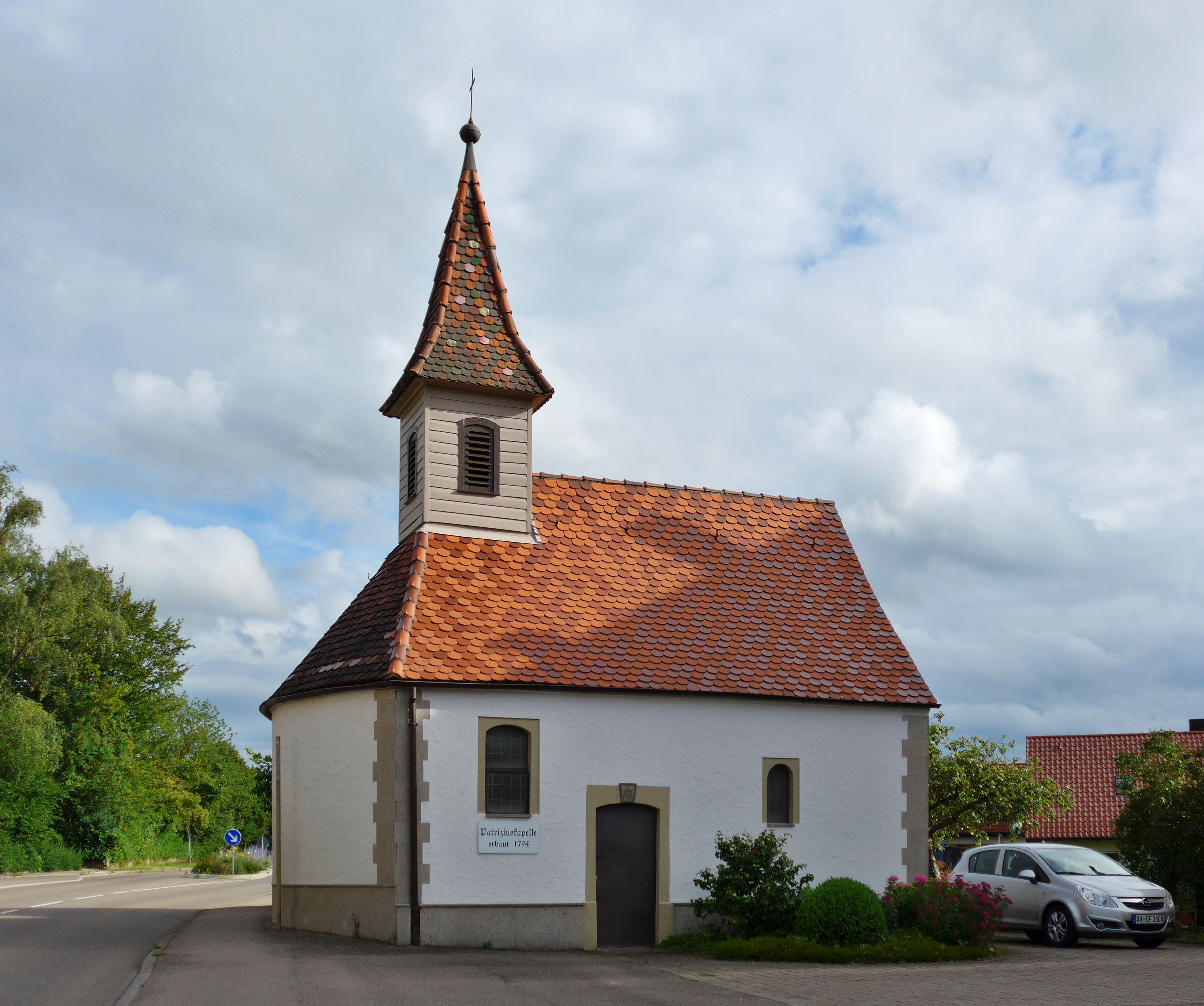 St. Patricius Chapel in Vorderlintal, Spraitbach, Germany. The inscription says "Patricius Chapel, built 1794".